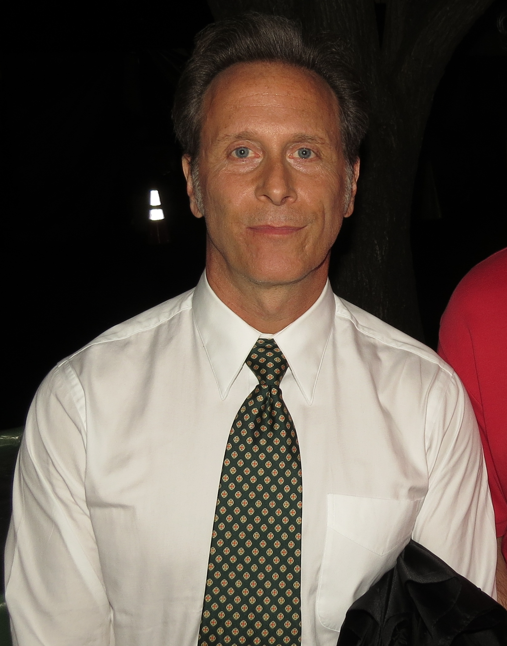 Star of Wings. 4/1/16